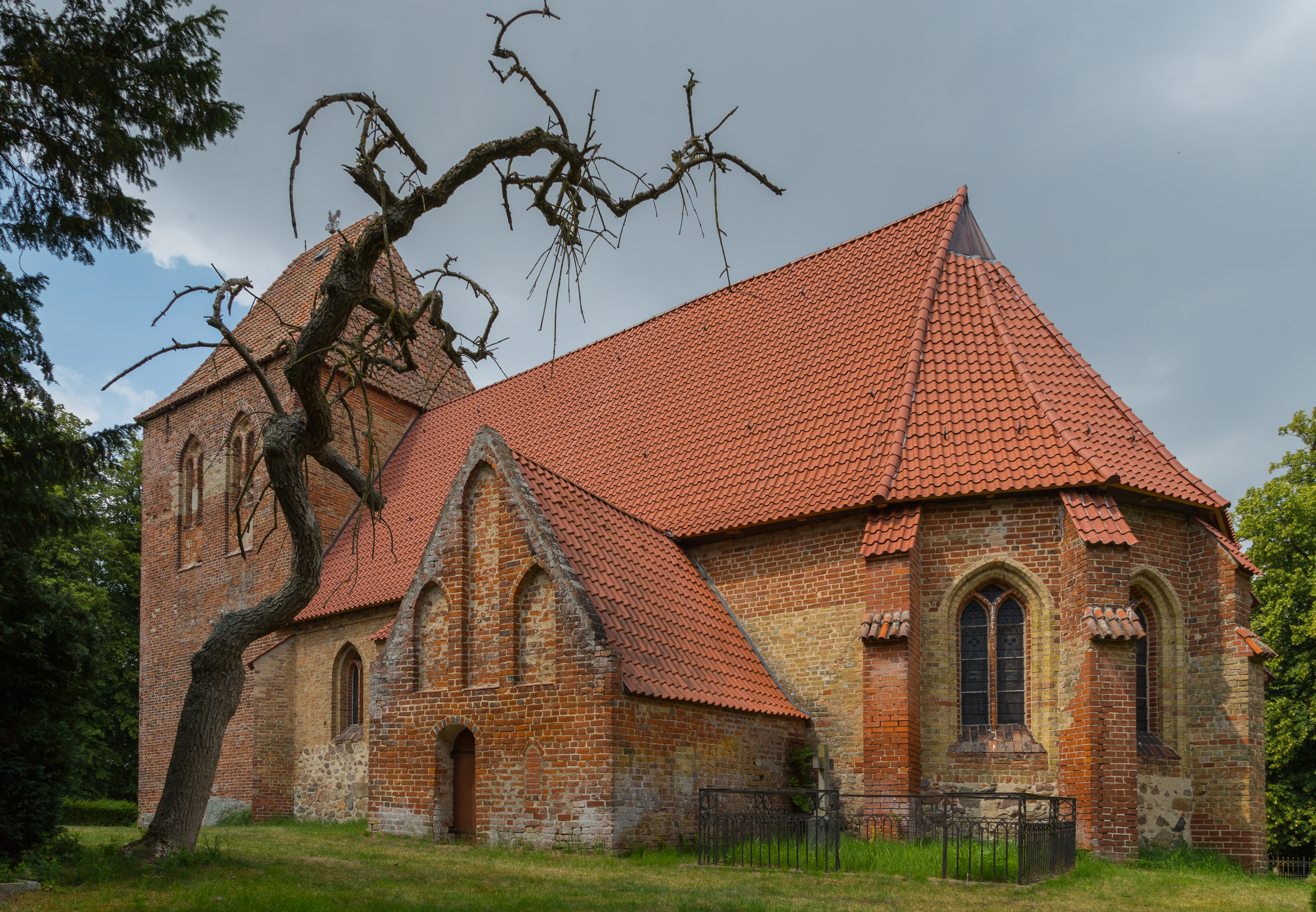 The Lutheran Village Church (Dorfkirche) of Alt Karin, district of Carinerland, Landkreis Rostock, Mecklenburg-Vorpommern, Germany. The church is a listed cultural heritage monument.